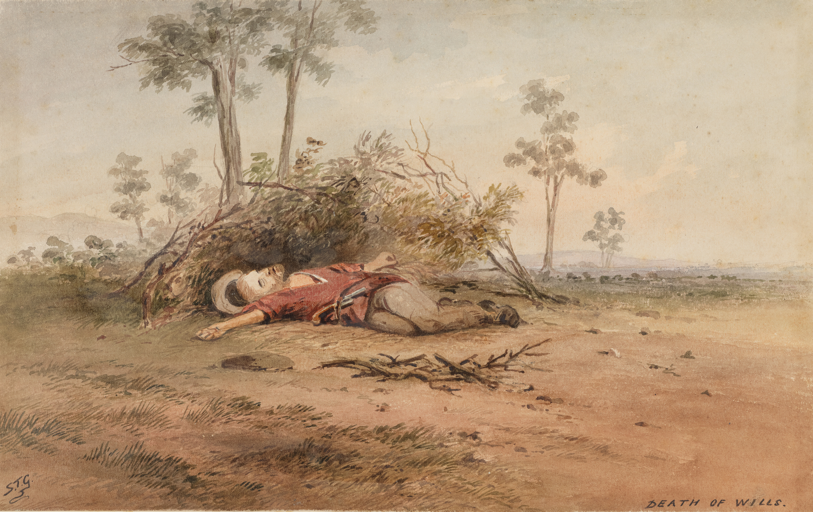 Burke and Wills, 08 Death of Wills, Samuel T. Gill, DGA 15 - 08